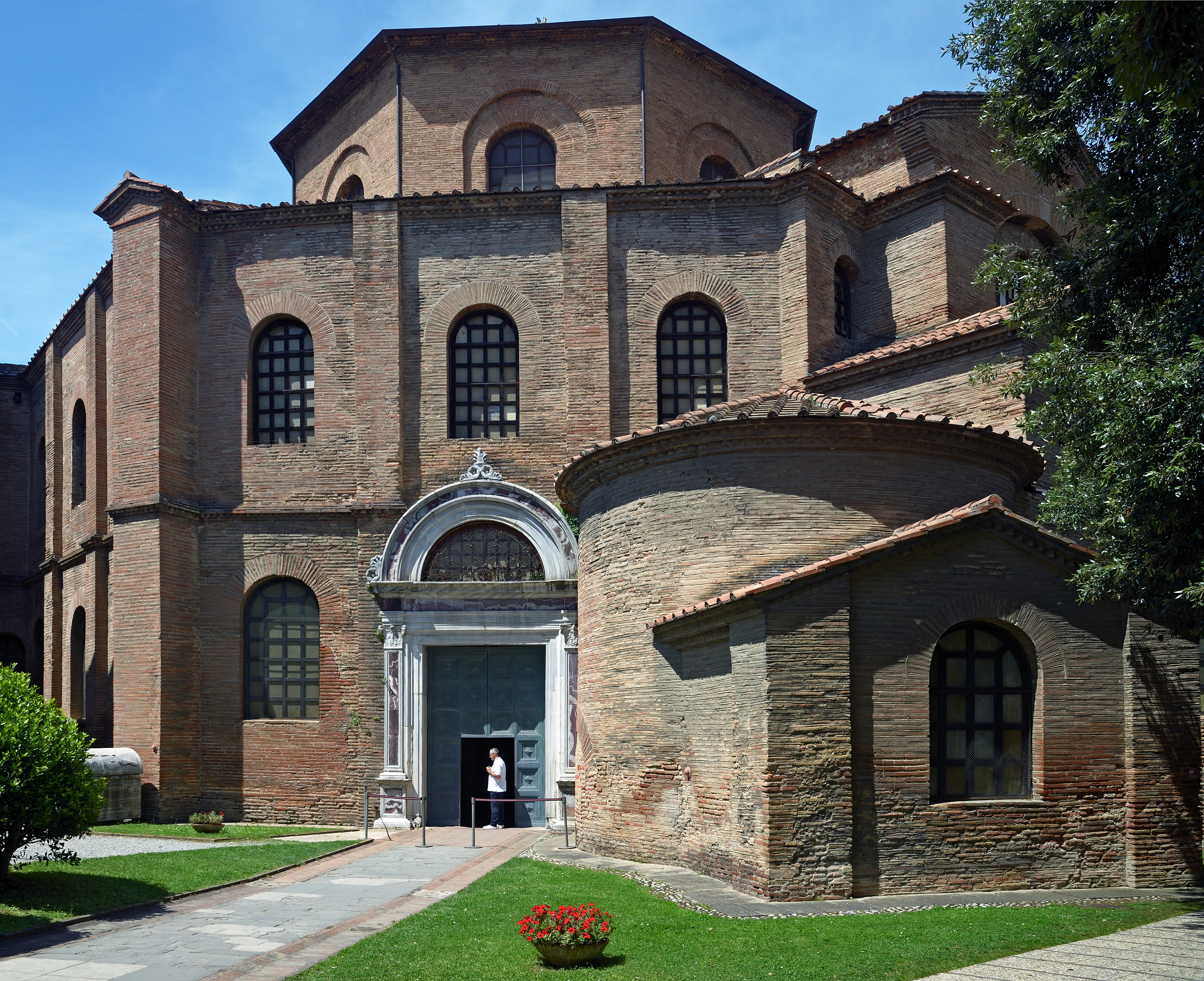 Basilica of San Vitale. Ravenna, Italy